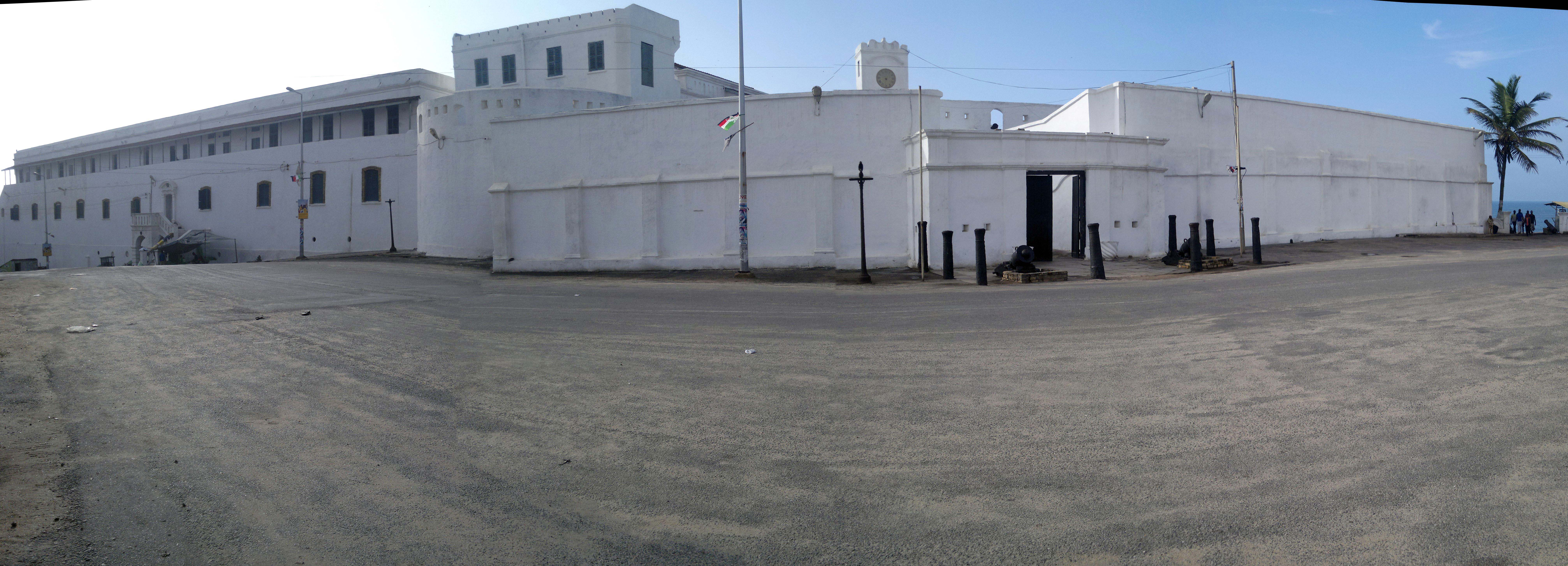 Front view of the Cape Coast castle.